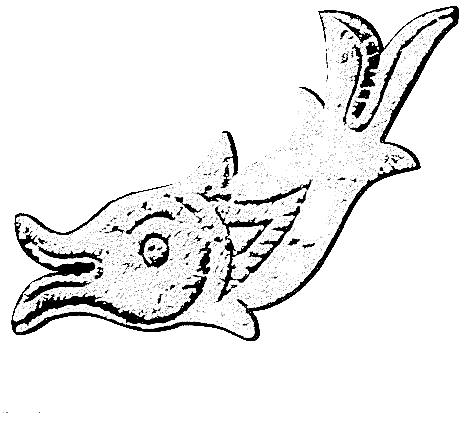 detalle de relieve paleocristiano.